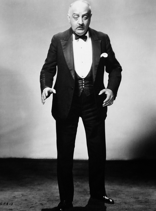 Paul Porcasi in Broadway - publicity still (original image damaged, modified & cropped : see source)